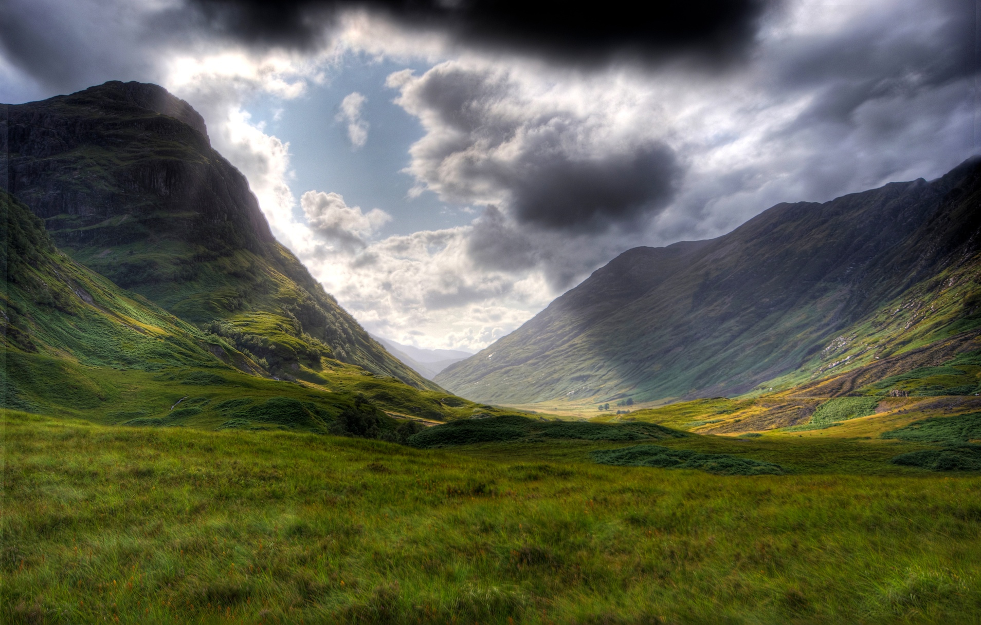 Glencoe Valley, near the village of Glencoe, Lochaber, Highlands, Scotland